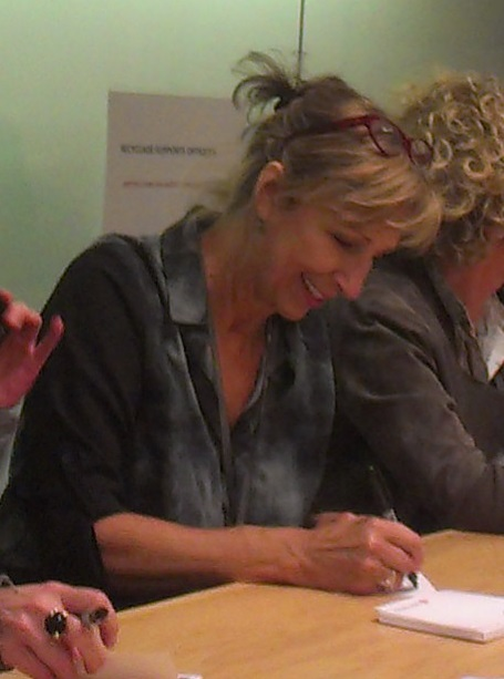 Danielle Proulx photographed in Montréal , Québec , Canada at the maison de Radio-Canada.